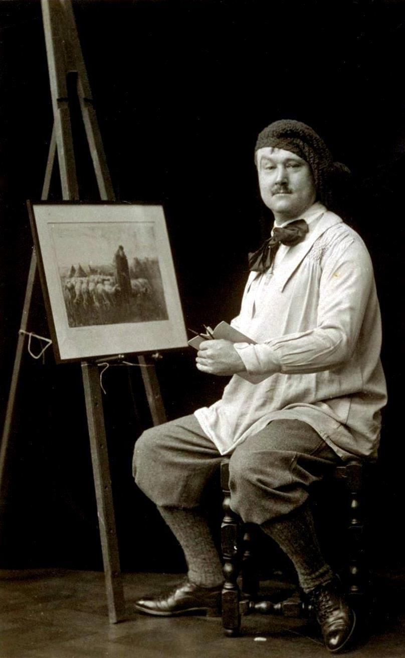 Wallace Irwin Fancy costume at artist's ball in London, 1922.